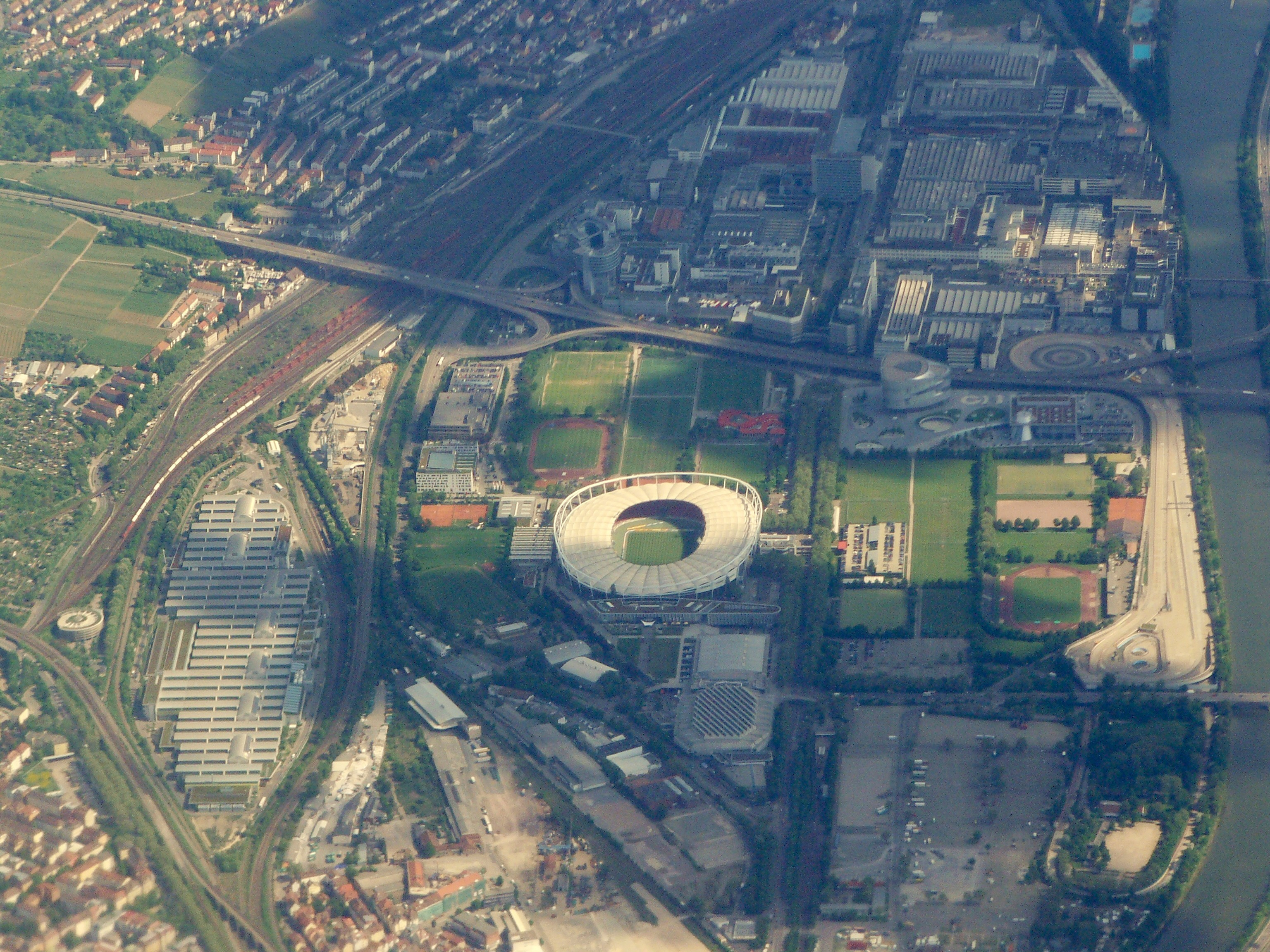 The Neckarpark in Stuttgart, Germany, with the Mercedes-Benz Arena and the Mercedes-Benz Museum, from airplane.